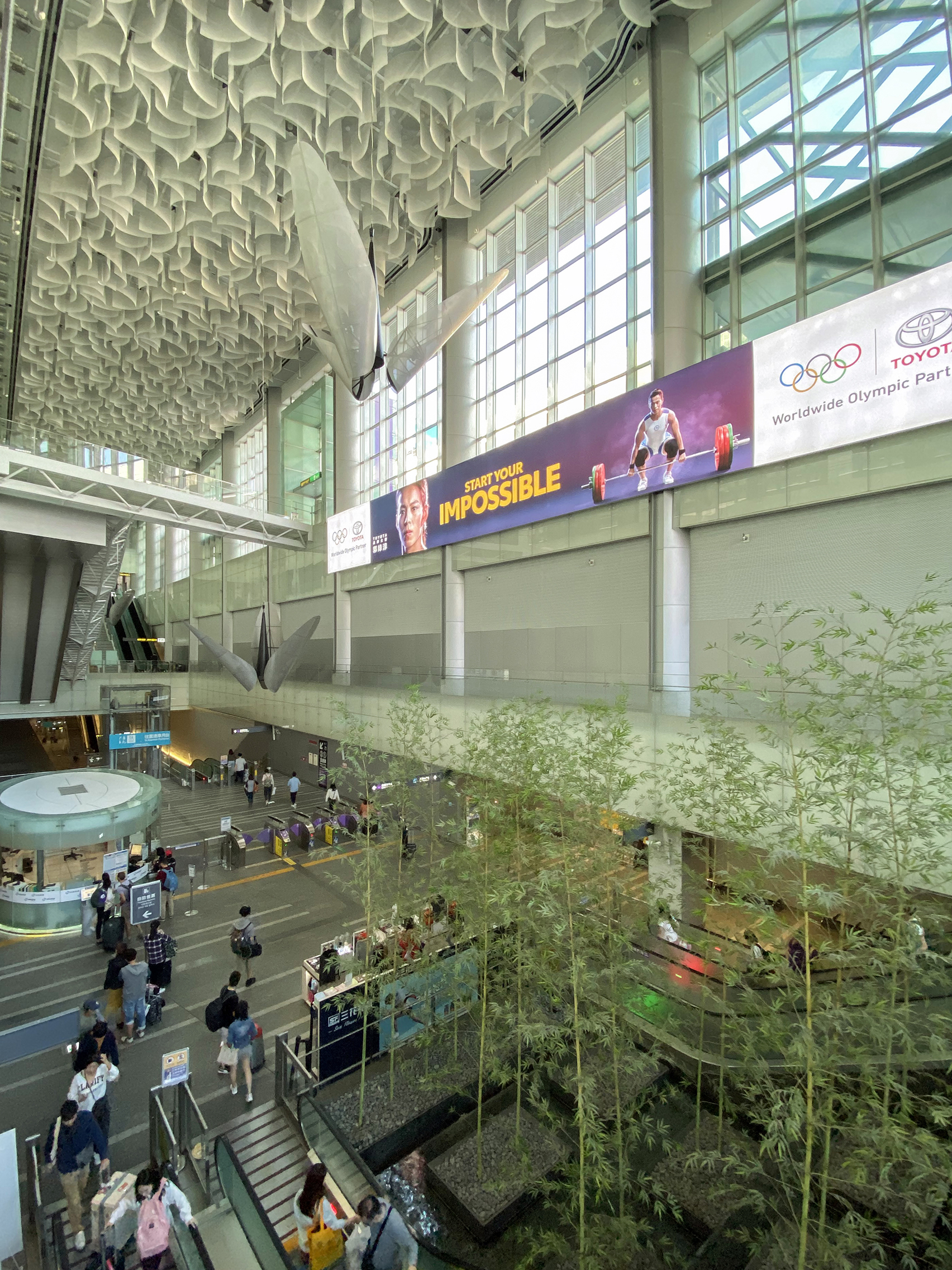 Taipei Main Station Taoyuan Metro Concourse